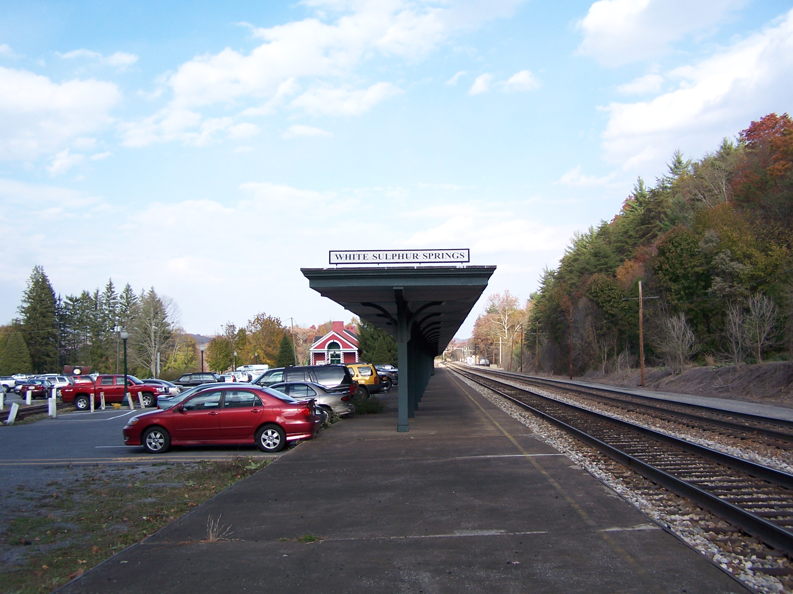 Train depot in White Sulphur Springs, West Virginia.